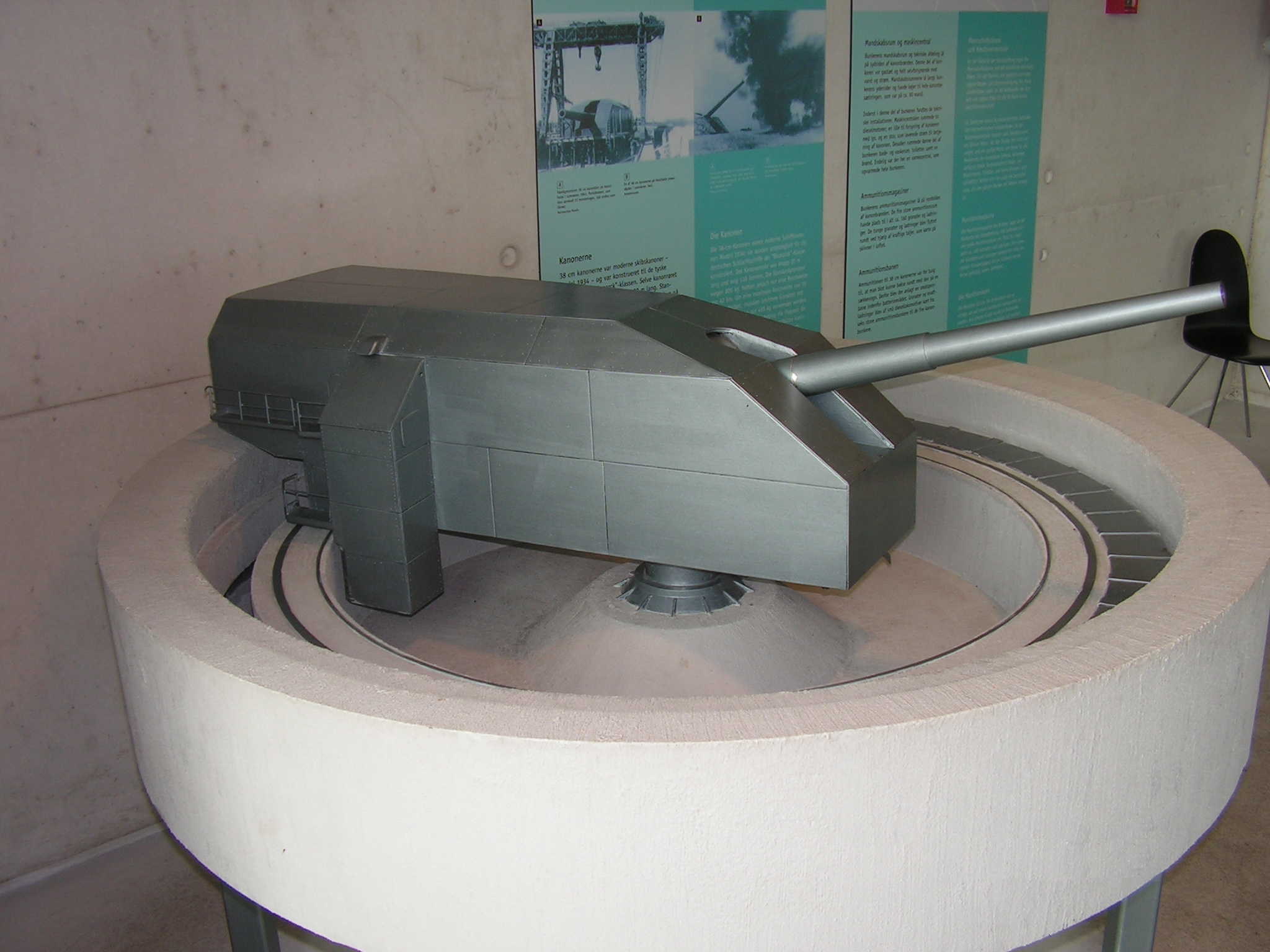 Modell of the Guns II. Battery at the Fortress Hanstholm